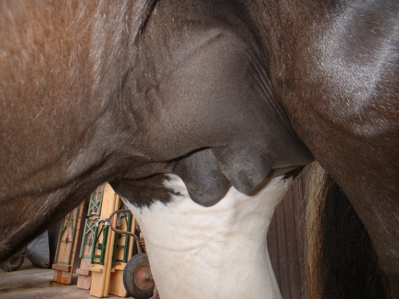 horse udder (here:Gypsy Vanner) Eigenaufnahme vom 30.05.2003